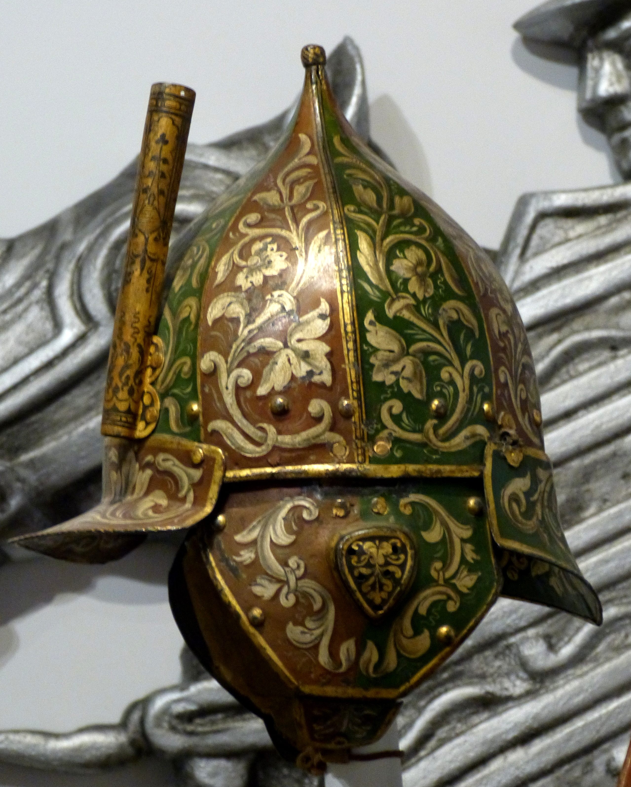 Ambras castle ( Tyrol ). Armoury: Burgonet (Szyszak) of archduke Ferdinand II, Innsbruck (1582 )